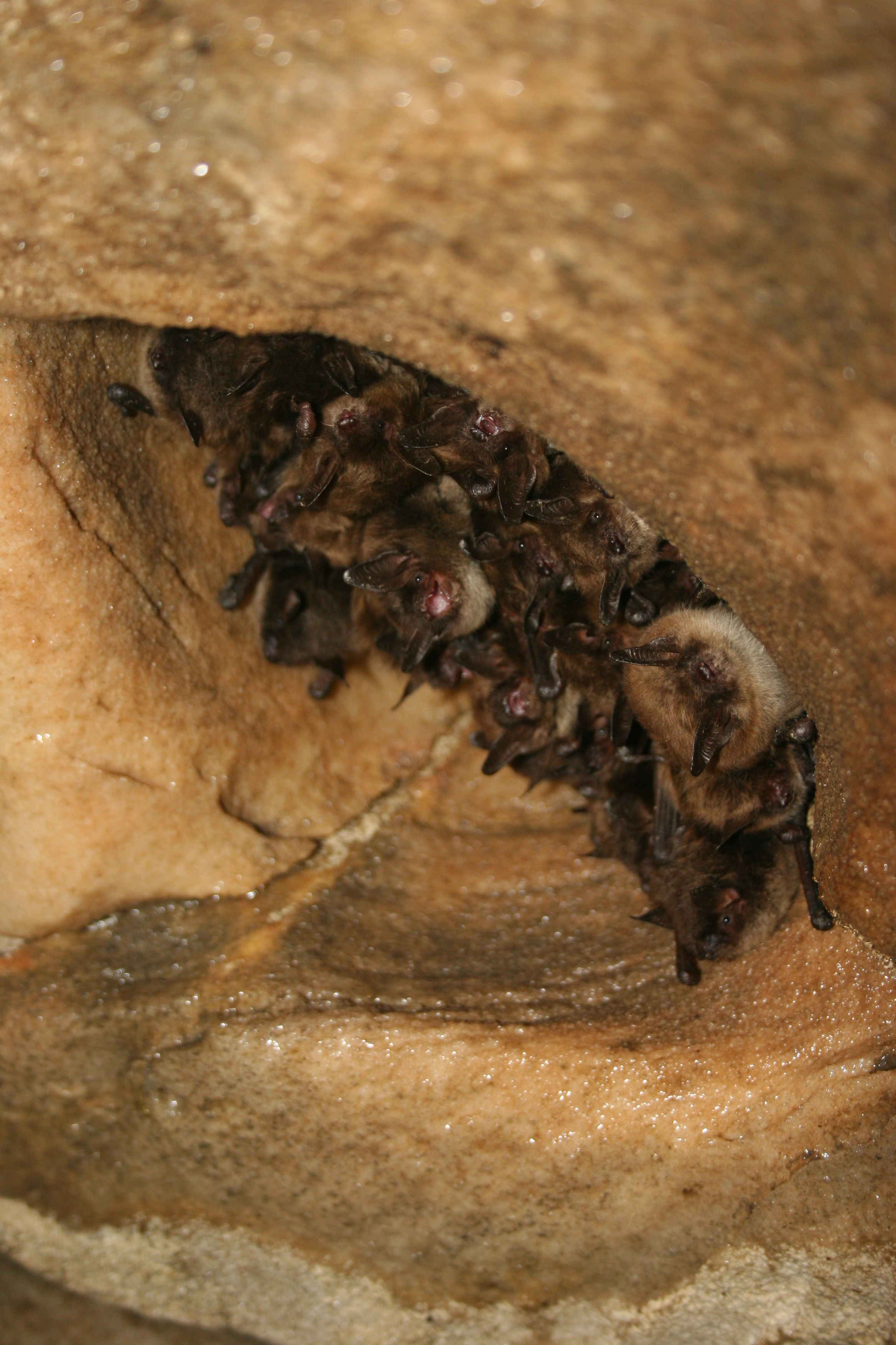 Healthy little brown bats in Mt. Aeolus Cave photo credit: Ann Froschauer/USFWS